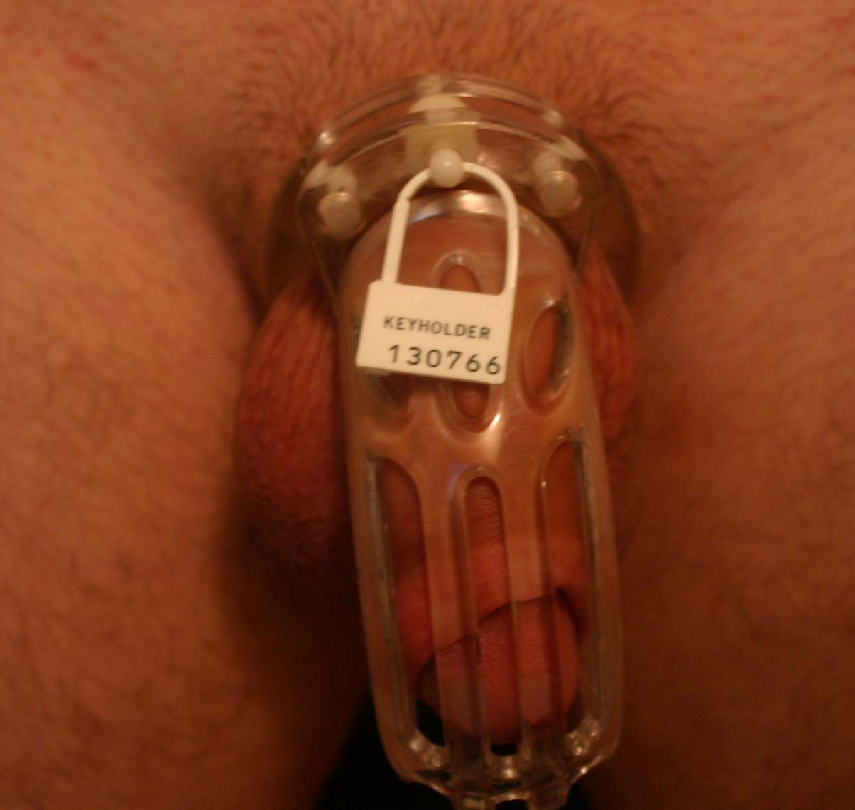 The Curve chastity cage. Note the serial numbered plastic lock.